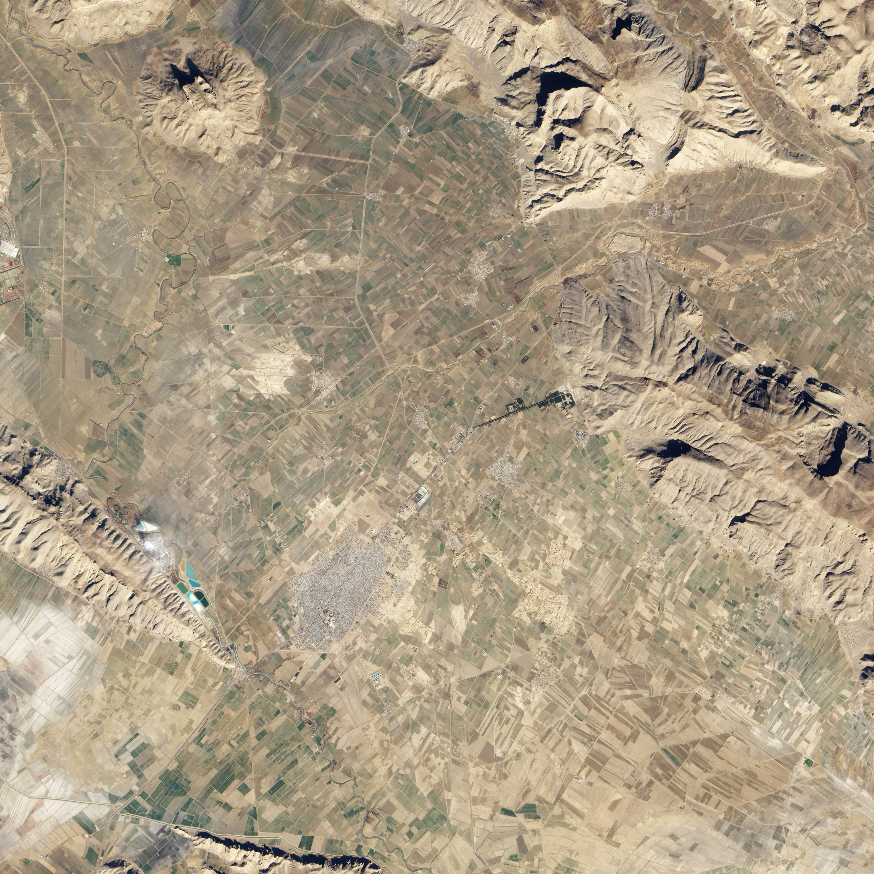 Natural-colour image of Persepolis and the surrounding region. The boundary between agricultural land and mountain runs roughly north-west to south-east. West of the boundary, the land appears as a patchwork of brown fallow fields and green growing crops. East of the boundary, mountain peaks on Kuh-i-Rahmat cast dark shadows to the north. A tree-lined road leads to the site of Persepolis from the south-west. Persepolis itself is roughly rectangular, and rivals the size of nearby modern settlements. The L-shaped, off-white structure at Persepolis is a modern covering, providing some protection from the elements to part of the ancient complex.